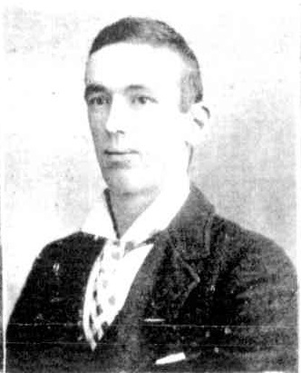 Photograph of Billy McGee featured in Punch Newspaper in 1899